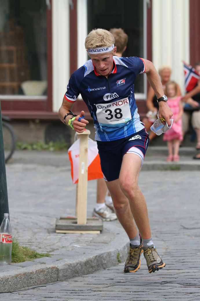 Frédéric Tranchand at World Orienteering Championships 2010 in Trondheim, Norway - Sprint Final